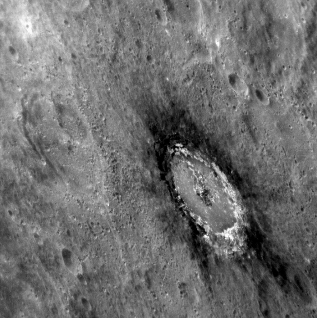 Date acquired: May 07, 2012 Image Mission Elapsed Time (MET): 244751374 Image ID: 1771144 Instrument: Narrow Angle Camera (NAC) of the Mercury Dual Imaging System (MDIS) Center Latitude: -31.66° Center Longitude: 189.89° E Resolution: 169 meters/pixel Scale: The diameter of Basho (the crater featured in this image) is approx. 80 km (50 mi.) Incidence Angle: 34.8° Emission Angle: 63.2° Phase Angle: 79.5° Of Interest: This striking, oblique image of Bashō shows the distinctive dark halo that encircles the crater. The halo is composed of "Low Reflectance Material" (LRM), which was excavated from depth when the crater was formed. Bashō is also renowned for its bright ray craters, which render the crater easily visible even from very far away. This image was acquired as a high-resolution targeted observation. Targeted observations are images of a small area on Mercury's surface at resolutions much higher than the 200-meter/pixel morphology base map. It is not possible to cover all of Mercury's surface at this high resolution, but typically several areas of high scientific interest are imaged in this mode each week.